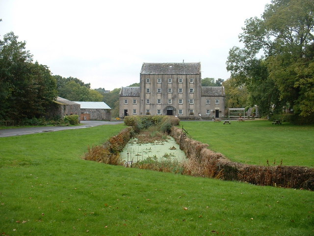 The mill race, Blackpool Mill The mill building is mostly in the adjacent square - the line goes through the right hand side.